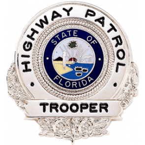 Florida Highway Patrol State Trooper Badge (silver).